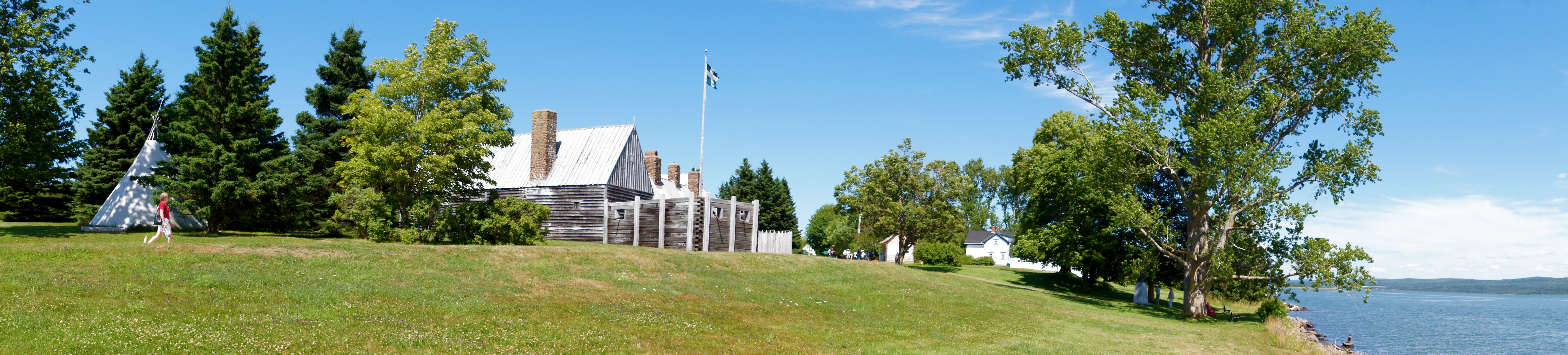 Port Royal, Annapolis County, Nova Scotia situated on the Annapolis River where it widens to form the Annapolis Basin